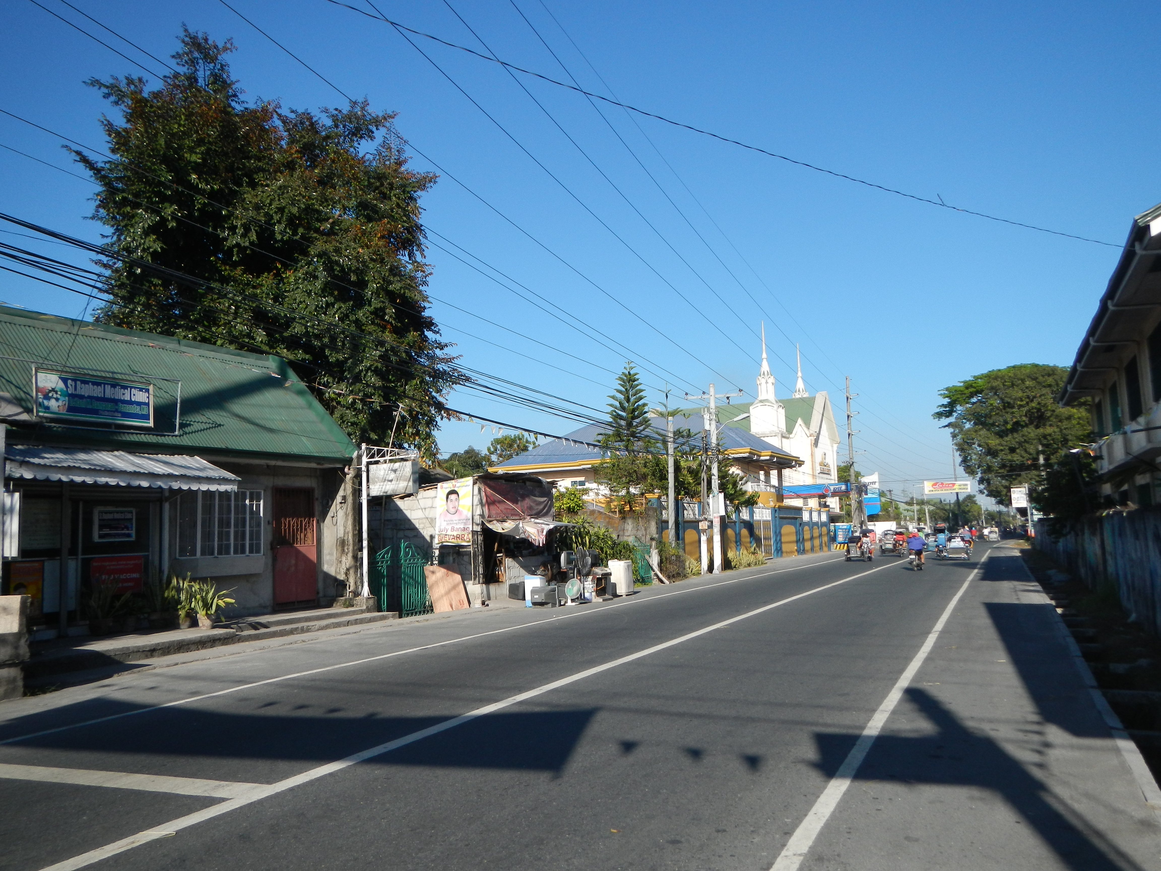 Concepcion, Tarlac[1] is a first class urban municipality in the province of Tarlac, Philippines; in the 2010 census, it has a population of 139,832 people. [2][3]Geographical coordinates are 15° 19' 31" North, 120° 39' 25" East and its original name (with diacritics) is Concepcion. [4][5]